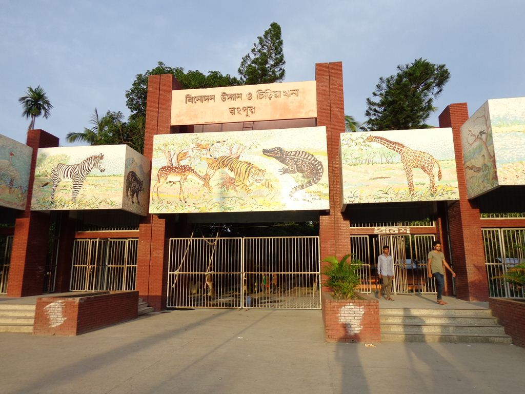 place rongpur.